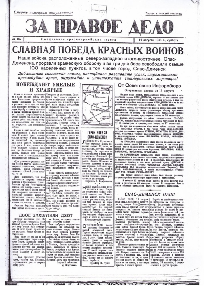 Red Army newspaper "For the right thing!" Nr. 187 of August 14, 1943